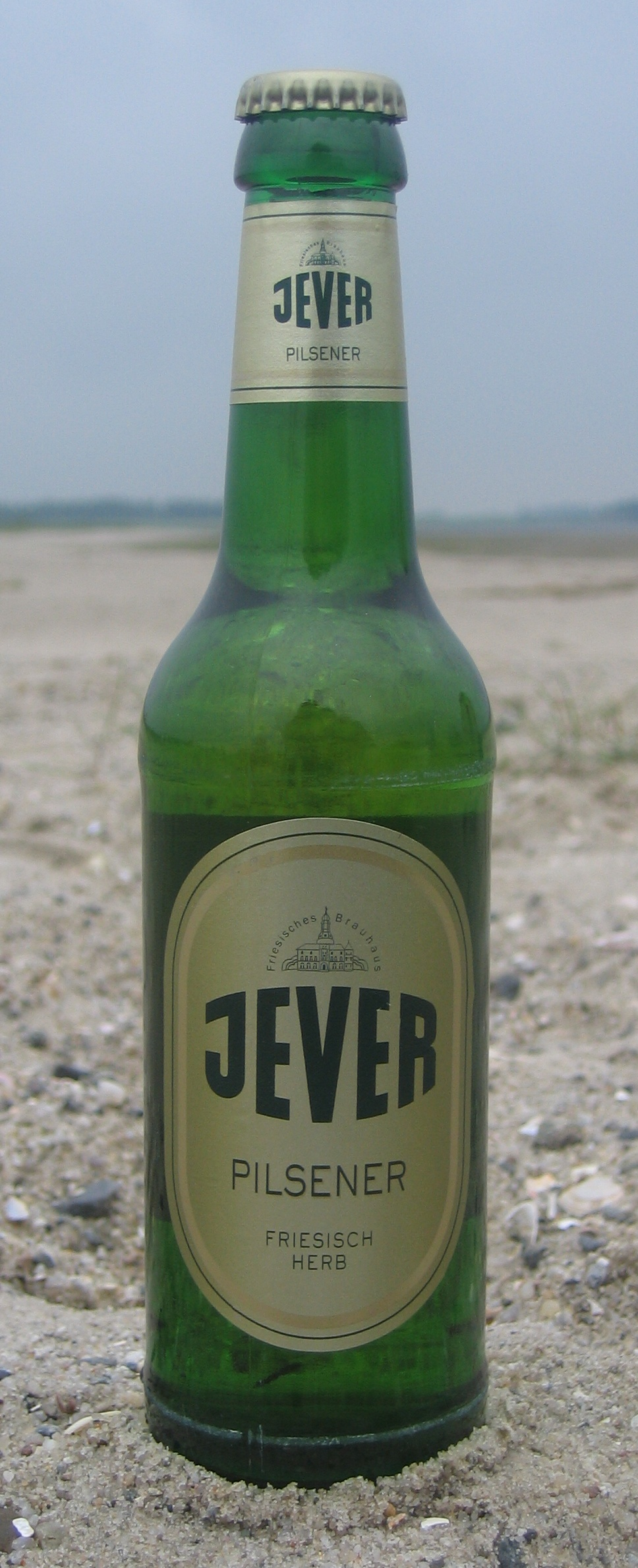 A bottle of Jever Pilsener at the beach. Photo taken by Michael Krahe, 2005-06-02. Licensed under the GFDL.